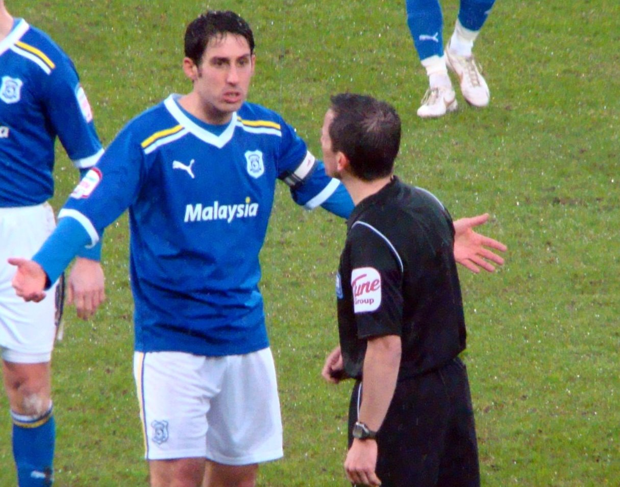 Cardiff F.C. captain Peter Whittingham remonstrating with the referee during a match